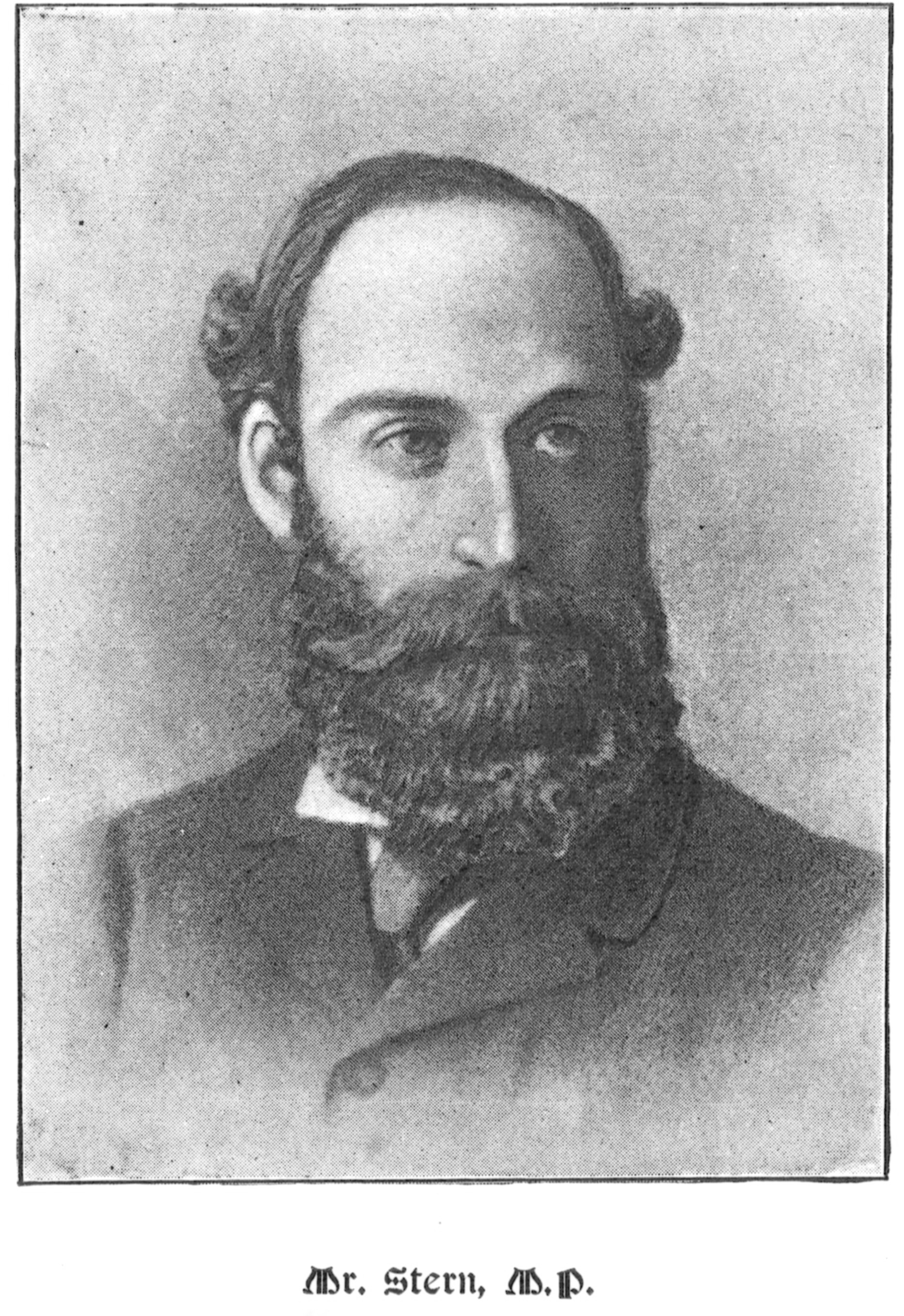 Portrait of Sydney James Stern (1844–1912) published August 1893 in Suffolk Celebrities